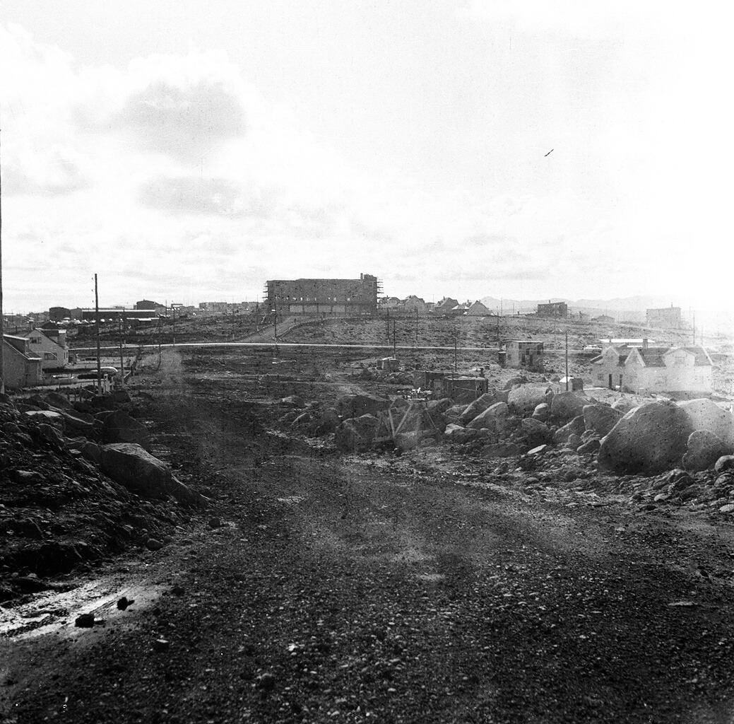 The Kópavogur Association house (icelandic: Félagsheimili Kópavogs) being built around 1958 which today houses the municipal offices. This photo was taken by Sigurður Einarsson (1917-2011) and obtained from the Kópavogur Municipal Archives.